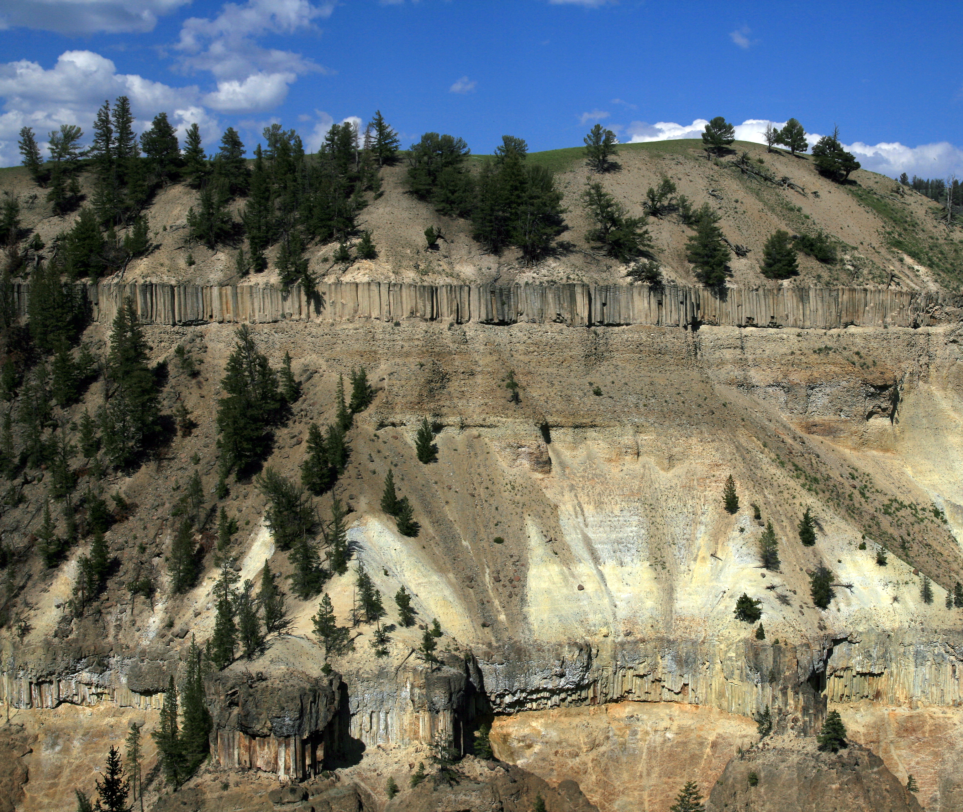 Basalt columns in Yellowstone National Park.During the cooling of a thick lava flow, contractional joints or fractures form. If a flow cools relatively rapidly, significant contraction forces build up. While a flow can shrink in the vertical dimension without fracturing, it cannot easily accommodate shrinking in the horizontal direction unless cracks form; the extensive fracture network that develops results in the formation of columns.